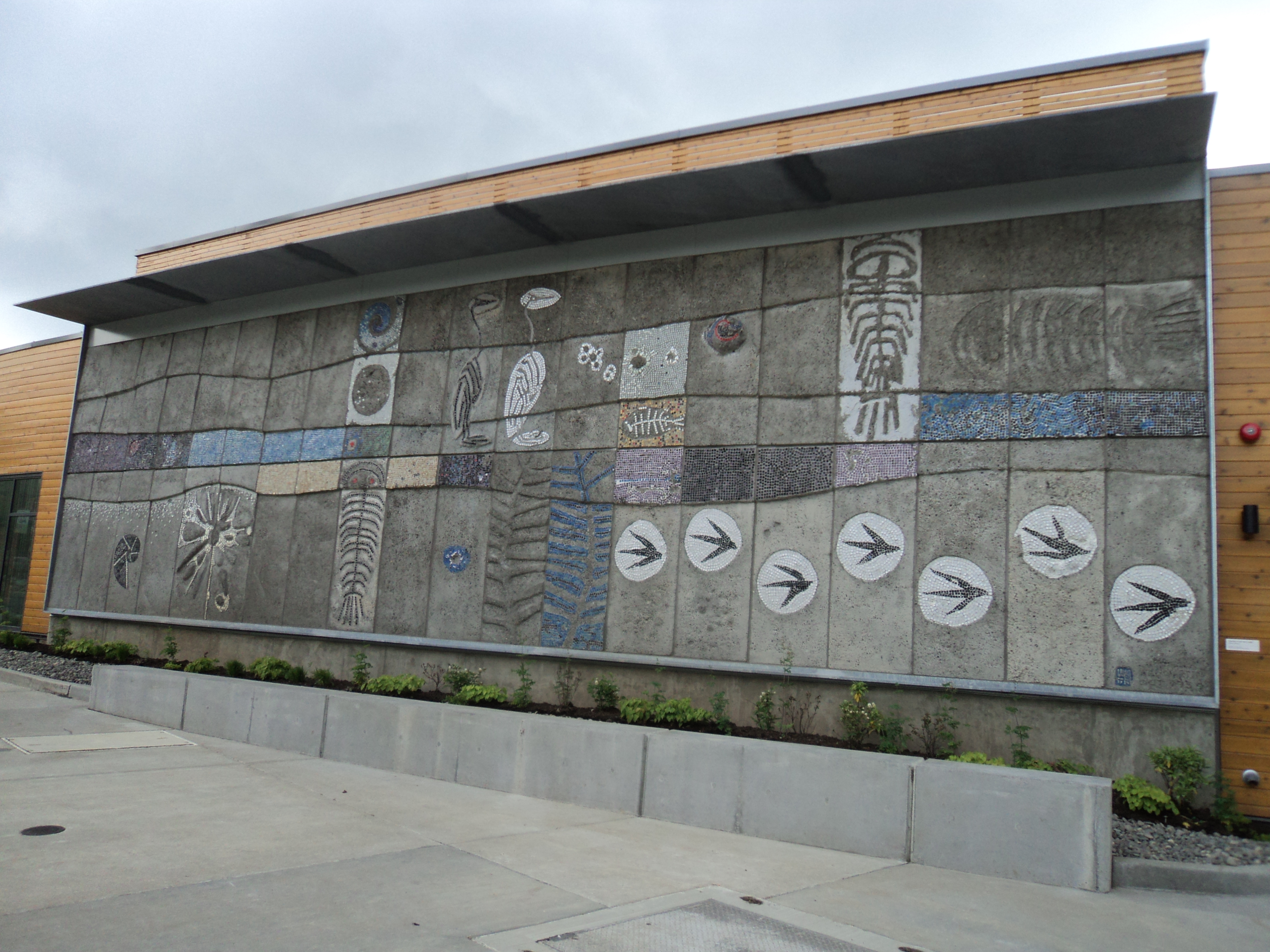 2017 photograph of "The Continuity of Life Forms", a 1959 mosaic by Willard Martin located in Portland, Oregon.